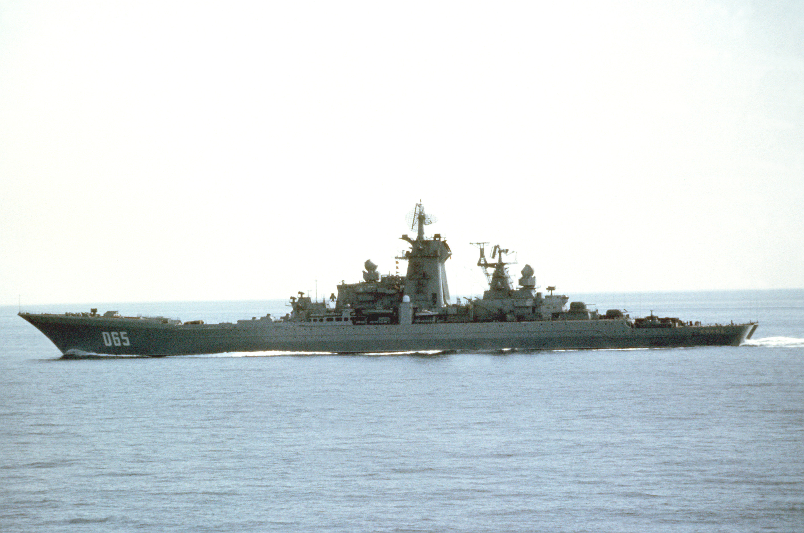 A port beam view of the Soviet nuclear-powered guided missile cruiser KIROV (065) underway.